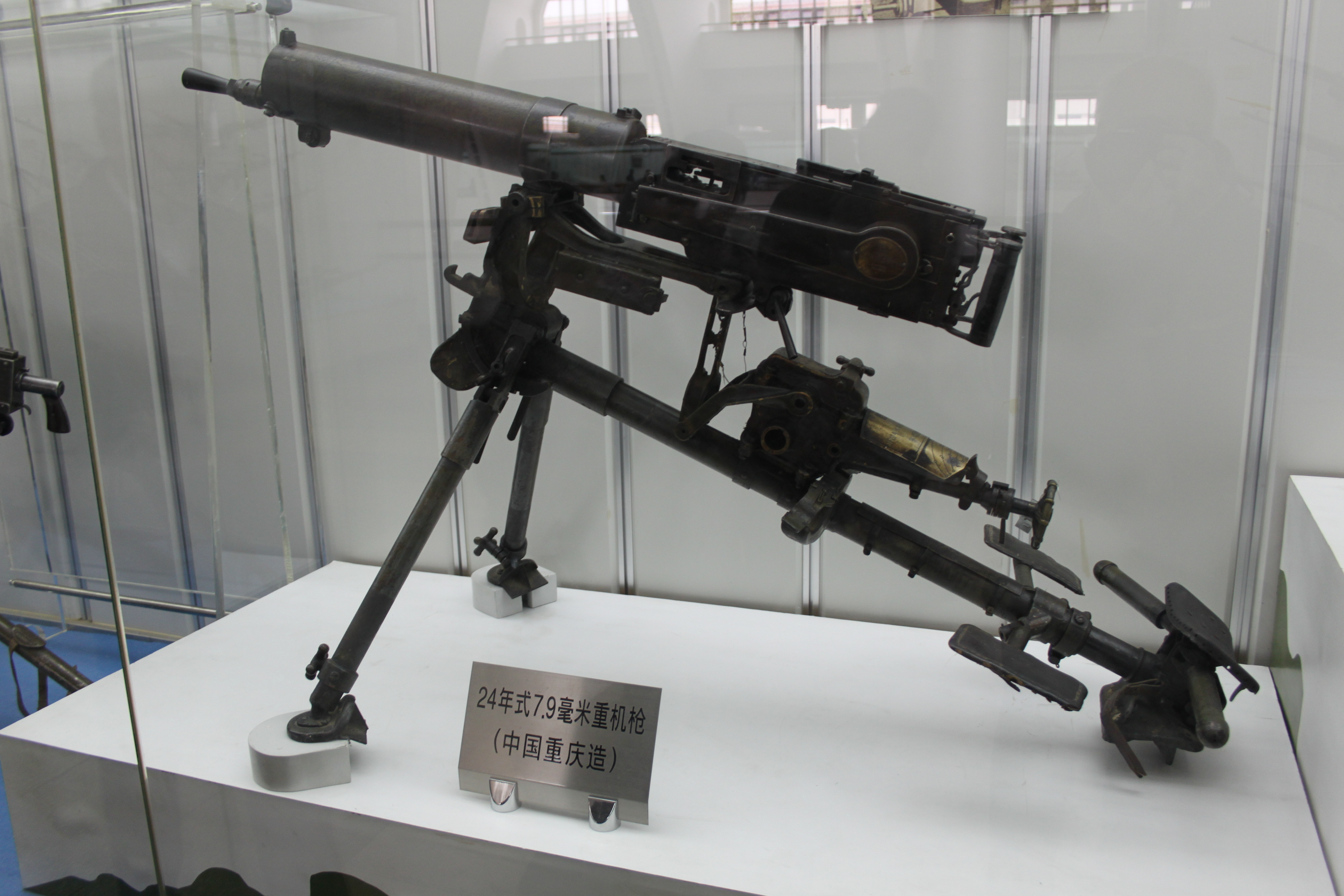 Military Museum: Modern Weapons, Small Arms Gallery. Complete indexed photo collection at .